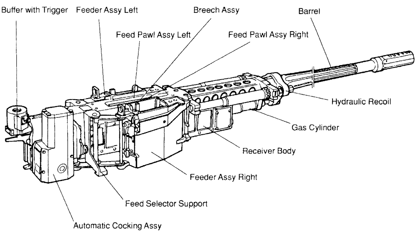 KBA Parts Description